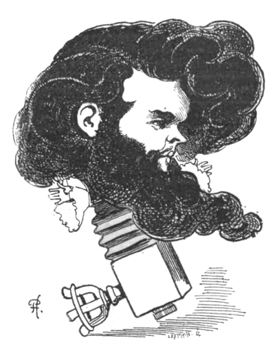 French photographer Pierre Petit (1831-1909) by Georges Lafosse (1844-1880)